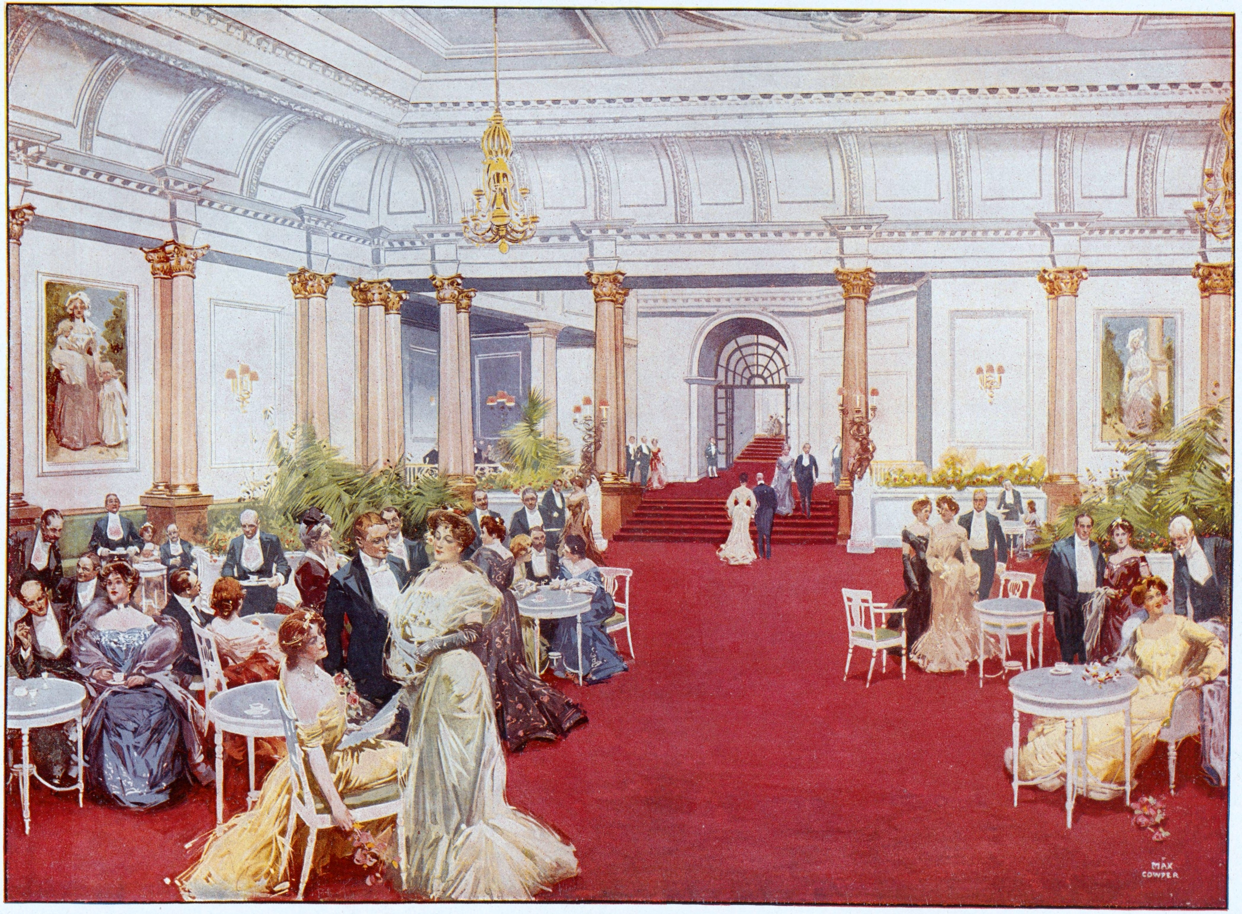 The grand foyer of the Savoy Hotel restaurant in London by Max Cowper.